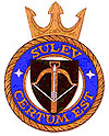 coat of arms of ENS Sulev